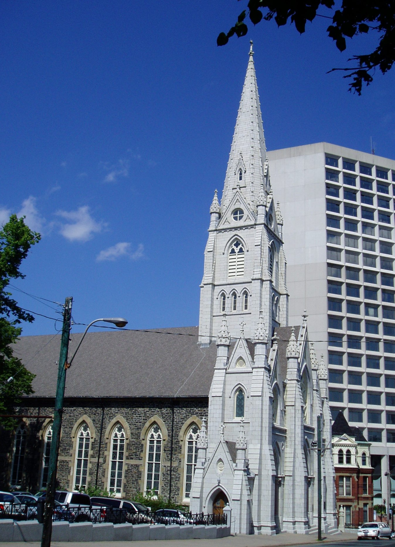 St. Mary's Basilica, Halifax, Nova Scotia, Canada. Taken by SimonP